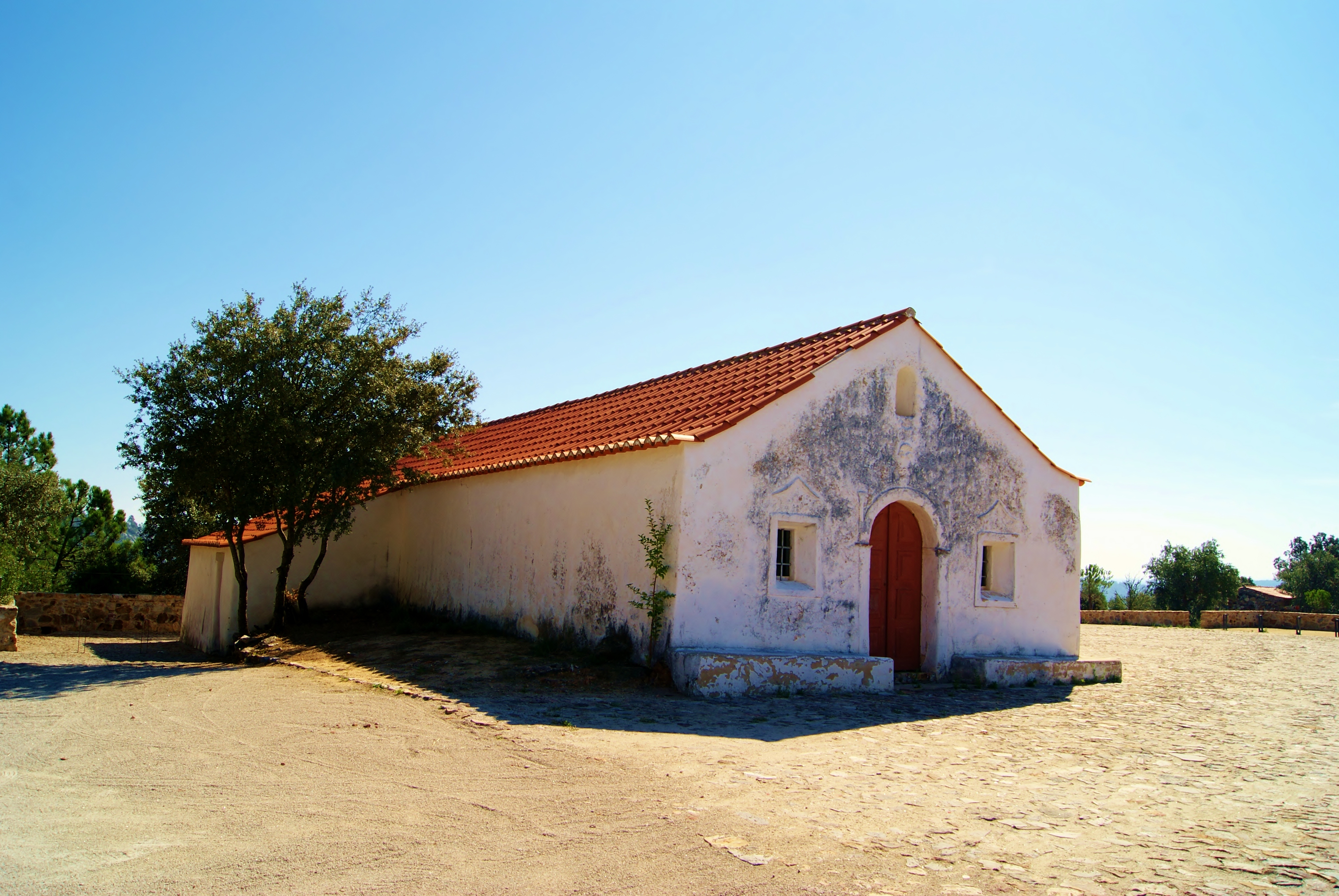 This monument is classified as Imóvel de Interesse Público. This file was uploaded for Wiki Loves Monuments in Portugal with the unique identifier 72989.